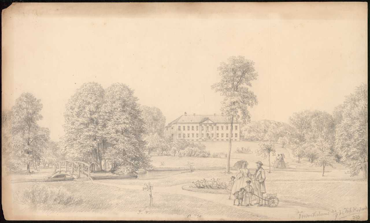 Store Frederikslund north of Slagelse, Denmark